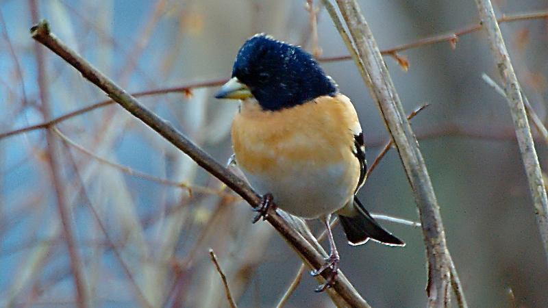 Brambling (Fringilla montifringilla), male in breeding plumage